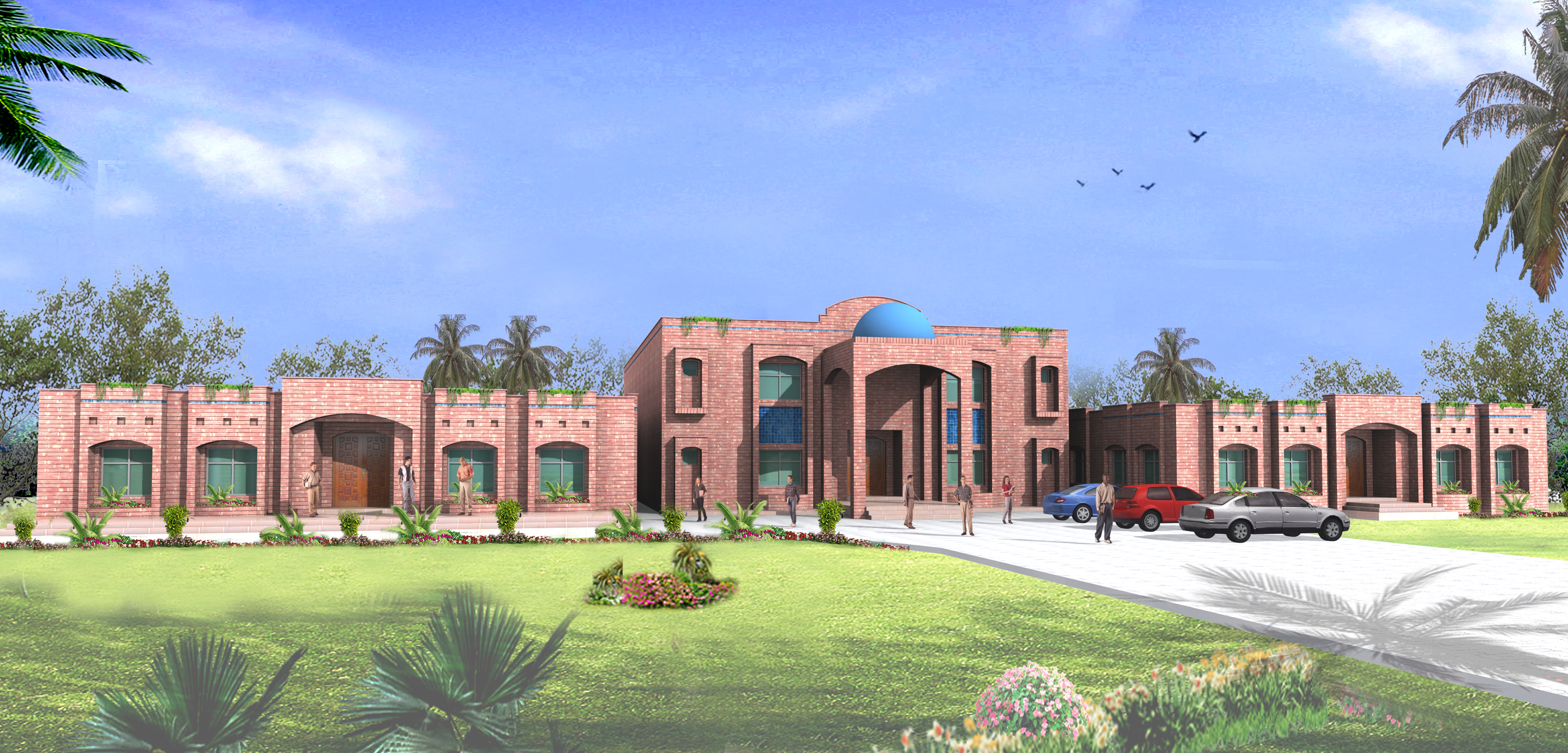 This is main campus picture, situated on main faisalabad road chiniot.